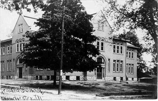 Postcard: "Graded School, Winchester, Ill." 1911